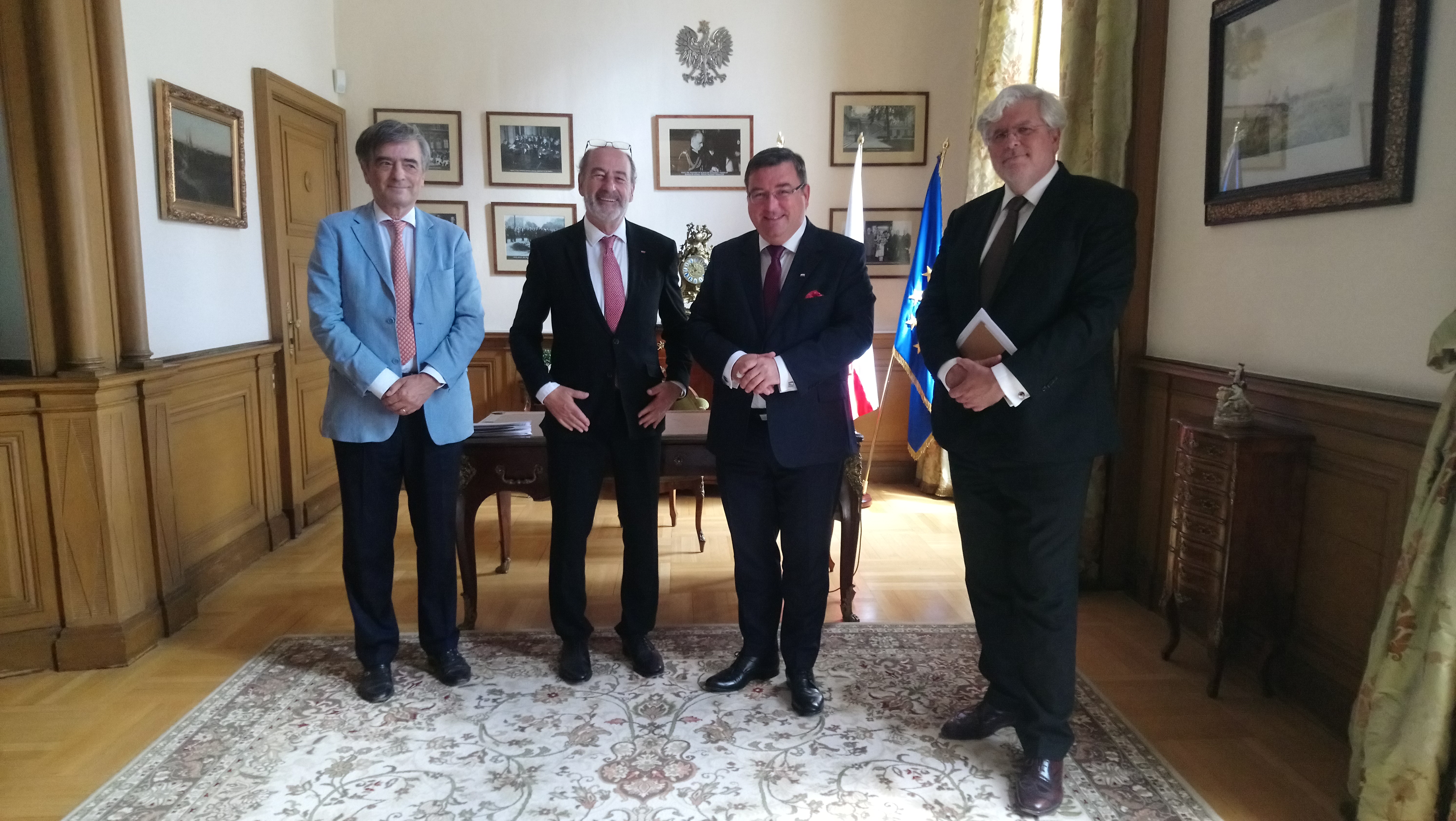 Georges Károlyi, Michal Fleischmann, Tomasz Młynarski, Igor Slobodník